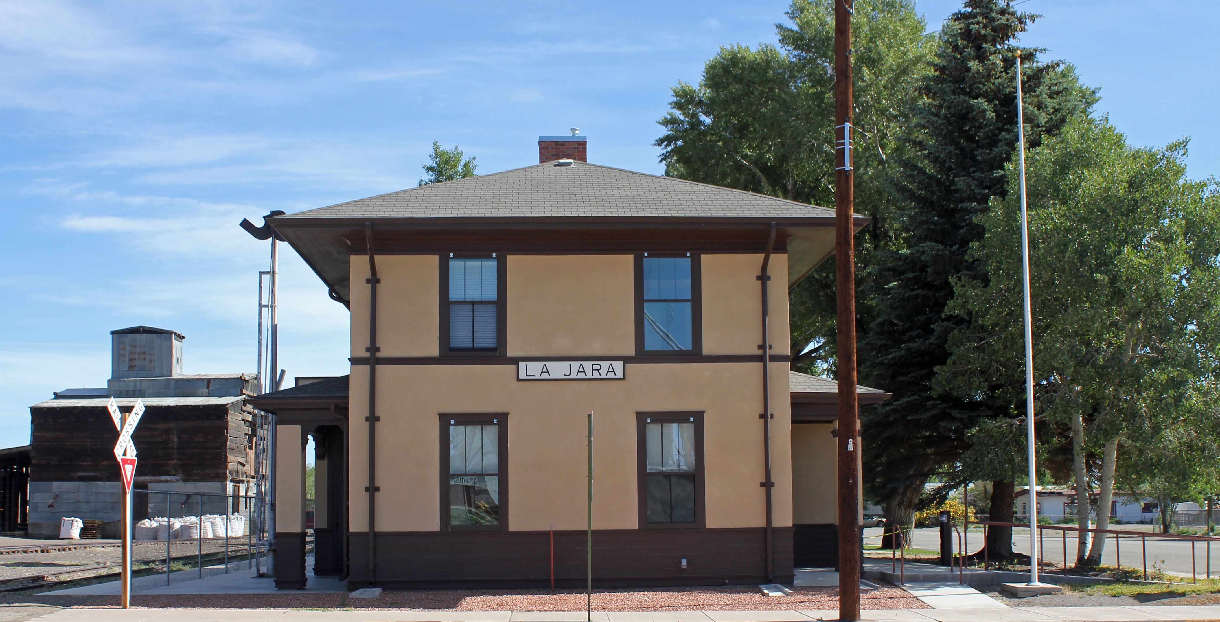 The La Jara Depot, located at Broadway and Main streets in La Jara, Colorado. The property is listed on the National Register of Historic Places.